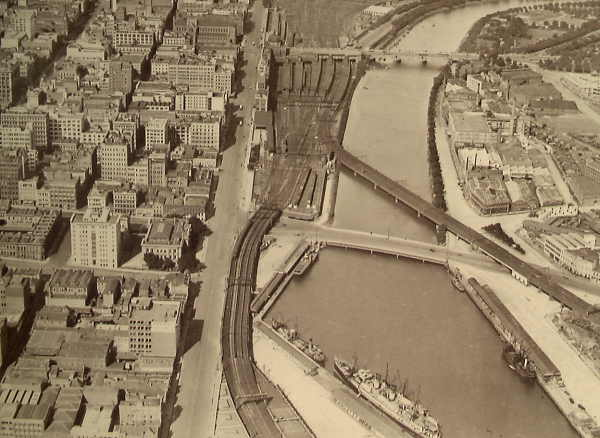 Sandridge Bridge and Yarra River, Melbourne. ca. 1927-ca. 1928.